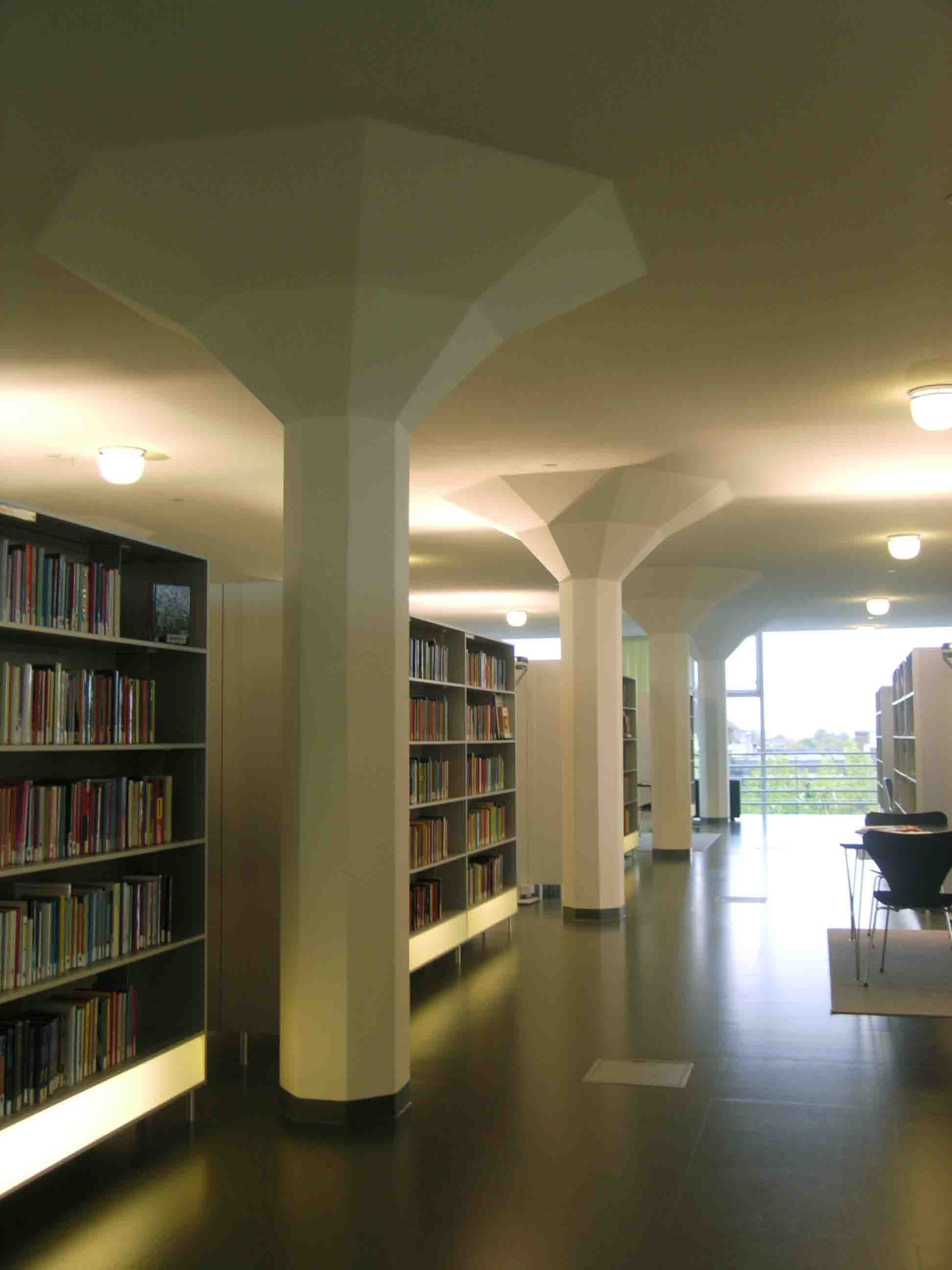 Photograph made and uploaded by Dirk van der MadeThe interior of the Glaspaleis, library